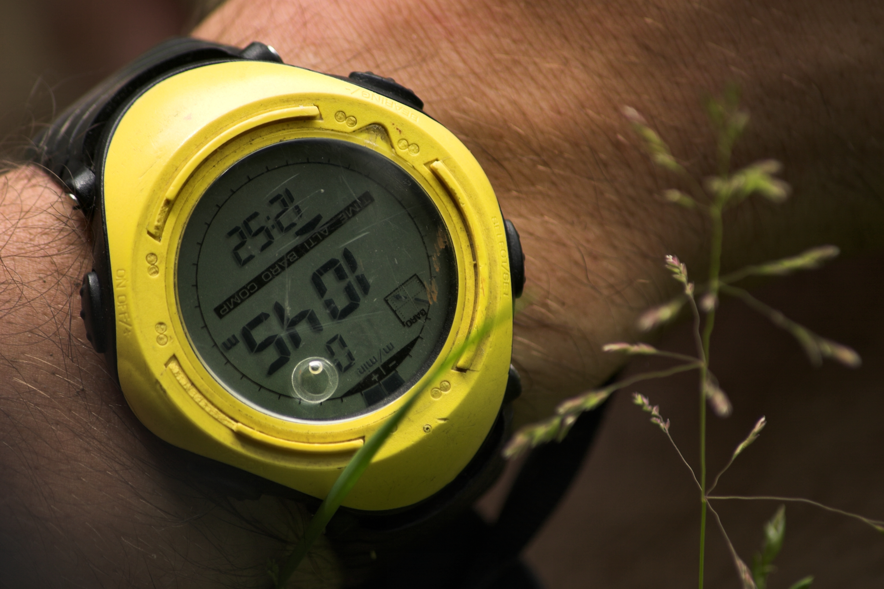 An older hardly used unidentified Suunto wristop computer in action.